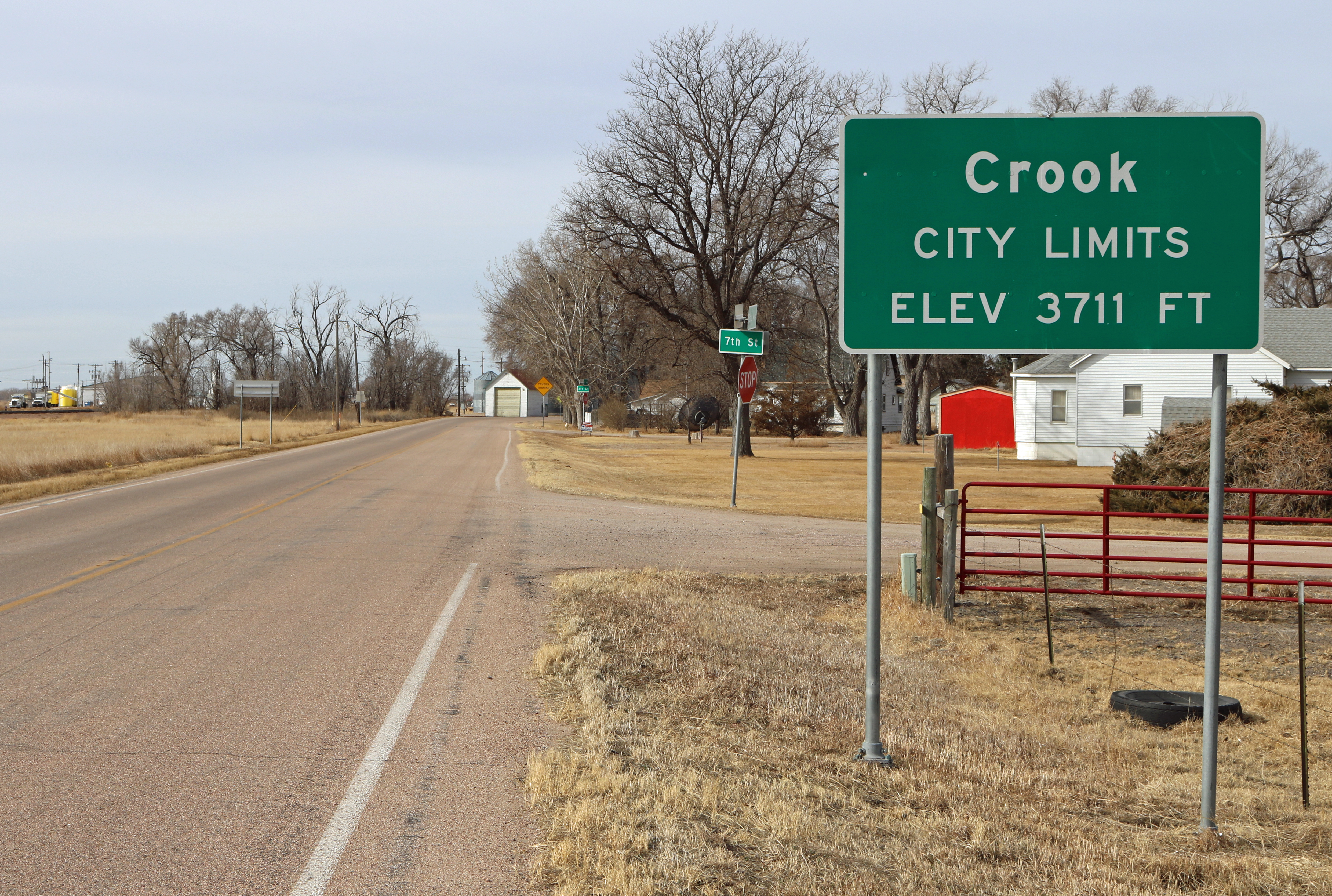 Crook, Colorado. The view is of Crook's city limits sign along U.S. Route 138.